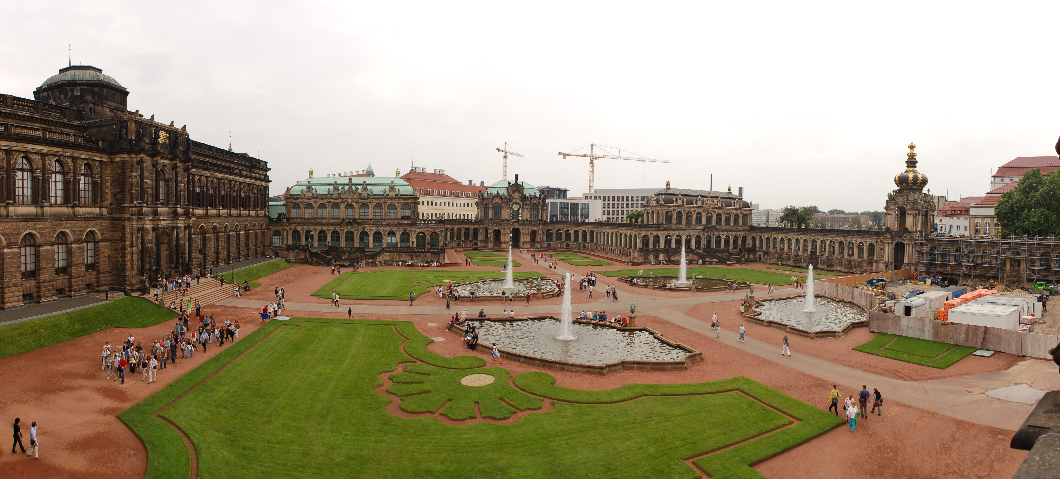 Panorama view of the Dresden Zwinger